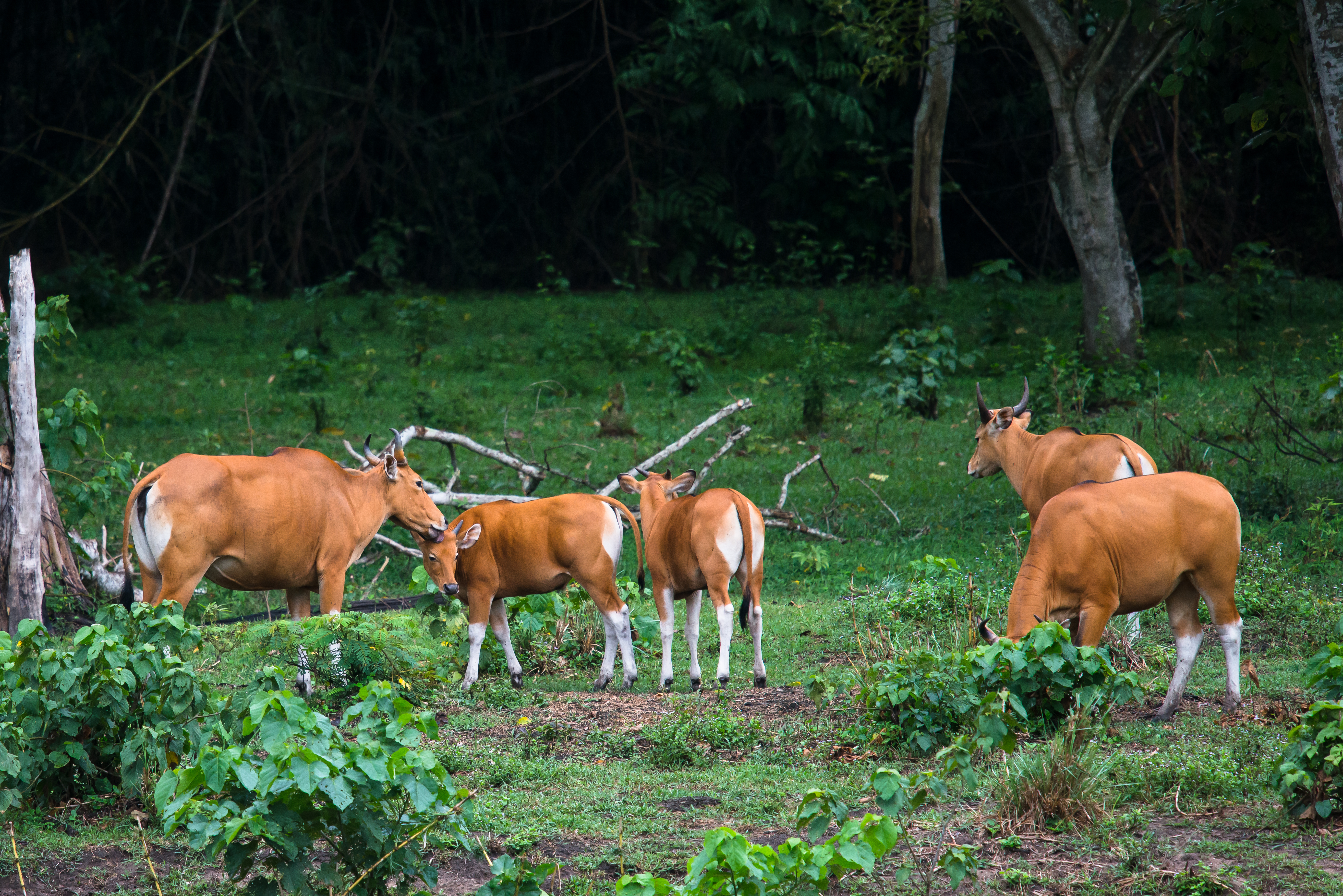 Huai Kha Khaeng Wildlife Sanctuary This photo is published under Creative Commons Attribution-Share-Alike Licence, means you are free to use this photo with attribution under same licence. When giving attribution, please use following; Owner: Thai National Parks Link